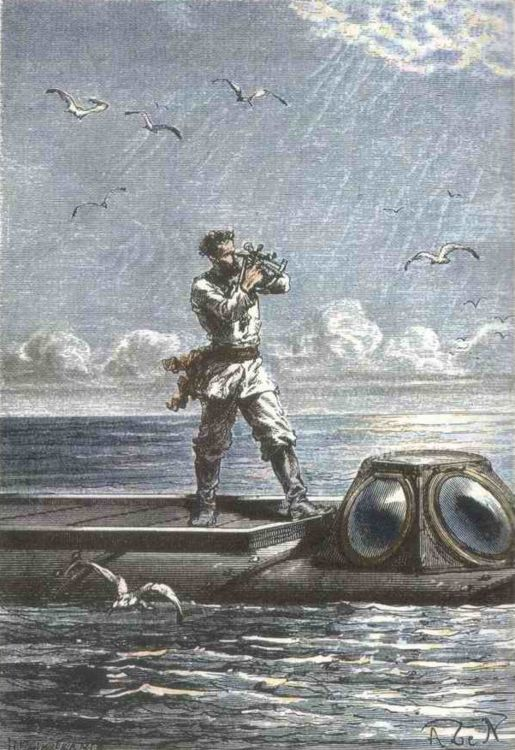 Nemo taking observations on the Nautilus. An illustration from an 1871 edition of Jules Verne's novel Twenty Thousand Leagues Under the Sea, illustrated by Alphonse de Neuville and Édouard Riou.